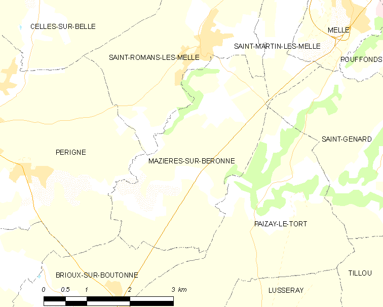 Map of French municipality Mazières-sur-Béronne